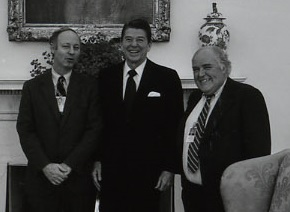 Jules Witcover, Ronald Reagan and Jack Germond in 1981 in Oval Office